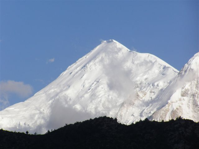 This is a picture of Mount Tilicho.